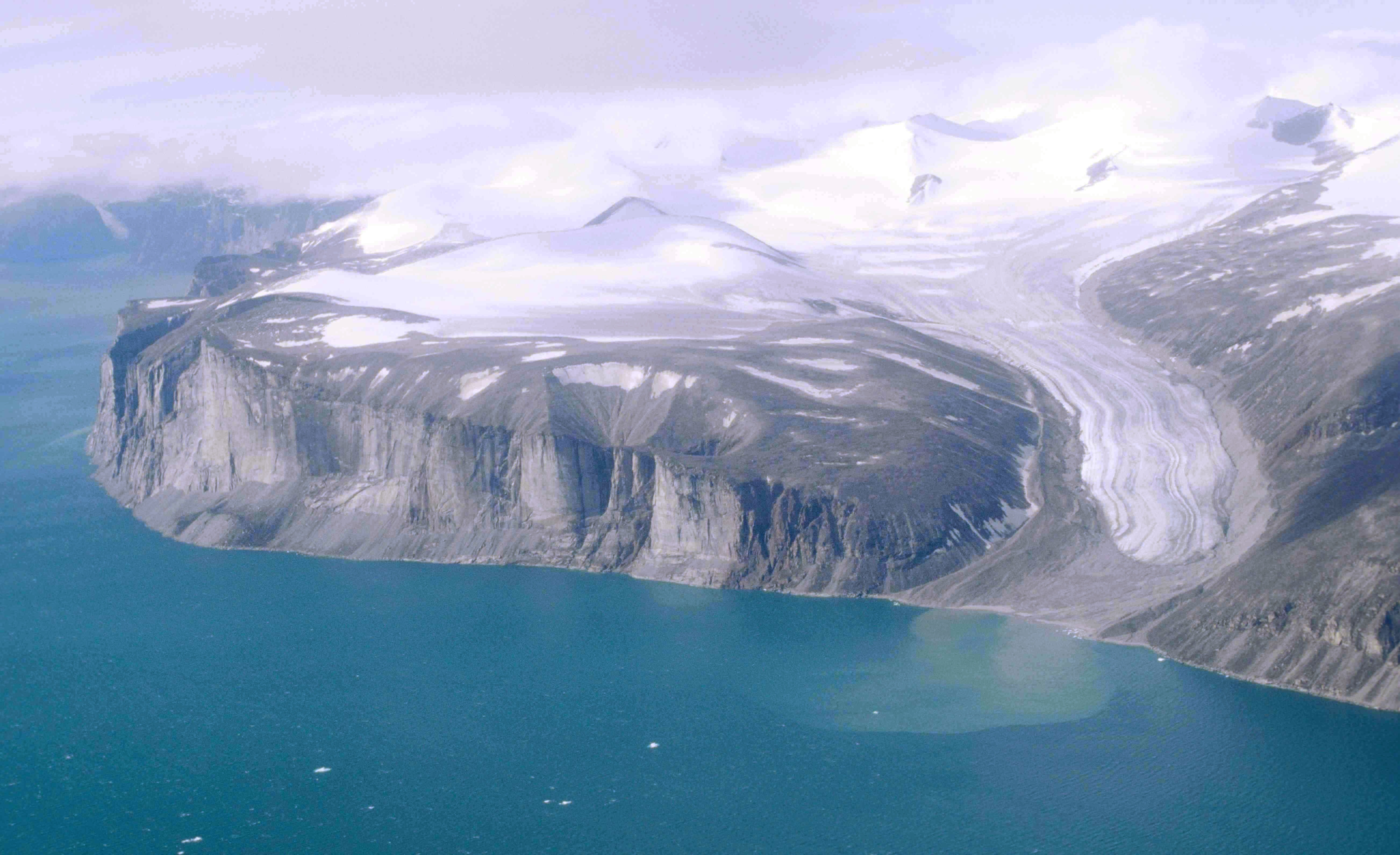 Tongue of a glacier in the Remote Peninsula; western shoreline of Sam Ford Fjord about 15 km (9.3 mi) from its mouth. Northeast coast of Baffin Island north of Community of Clyde River, Nunavut, Canada, from above (1000 m)